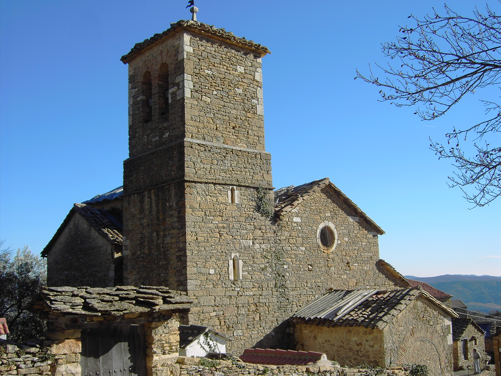 Saint Nunilo and Alodia's church in an:Betorz, Huesca, Spain.